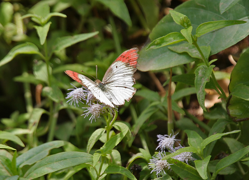 Crimson Tip Colotis danae in Hyderabad , India.